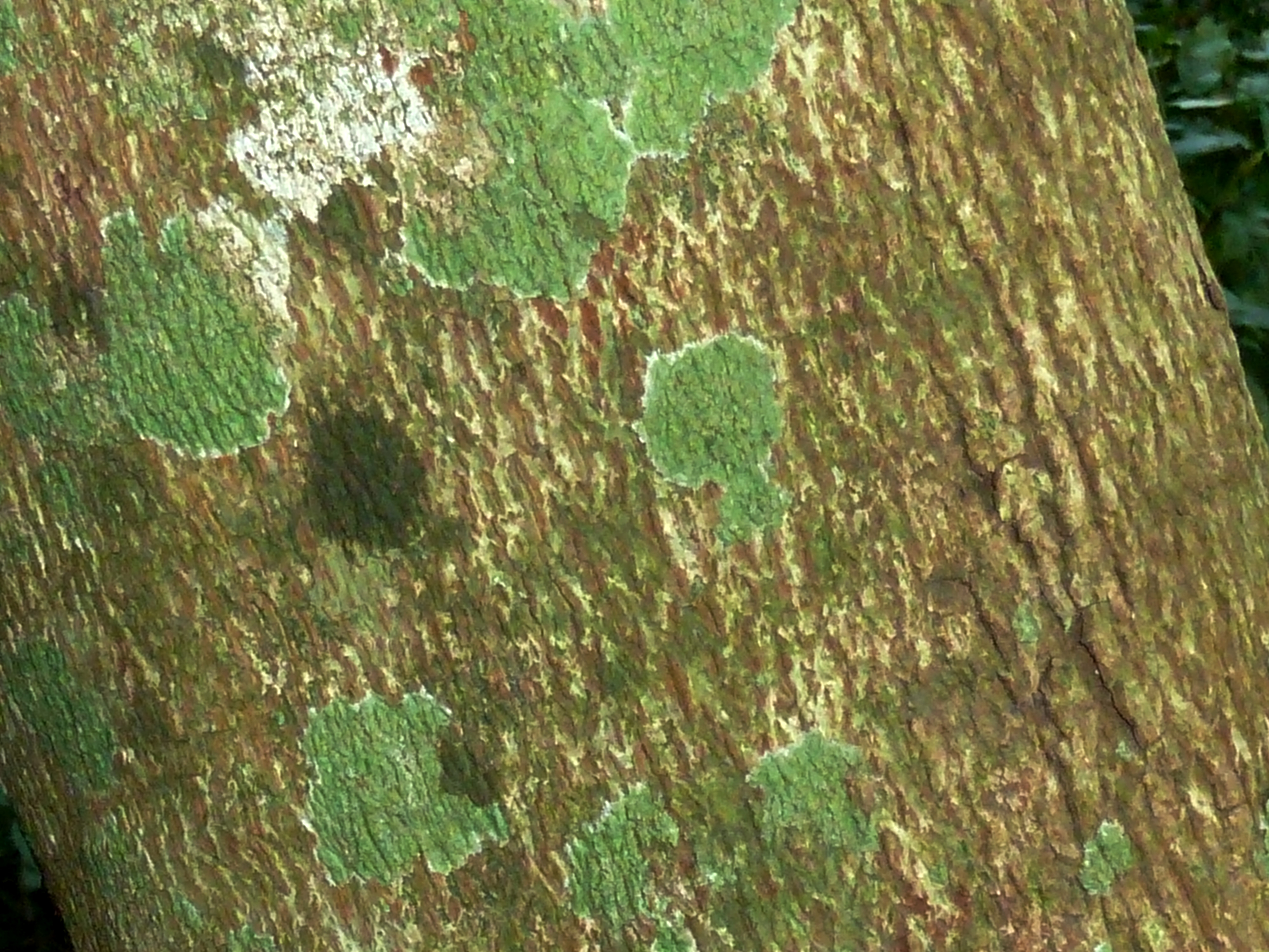 Bark of a Dune false currant in the Umhlanga Lagoon Nature Reserve, KwaZulu-Natal